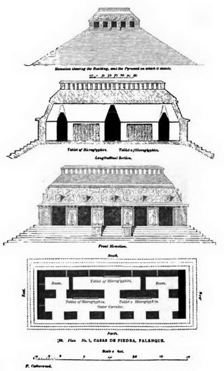 Image caption. Also see the page link to the entire book